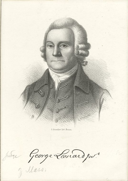 George Leonard, Jr., (1729–1819). NYPL catalog ID (B-number): b13049824